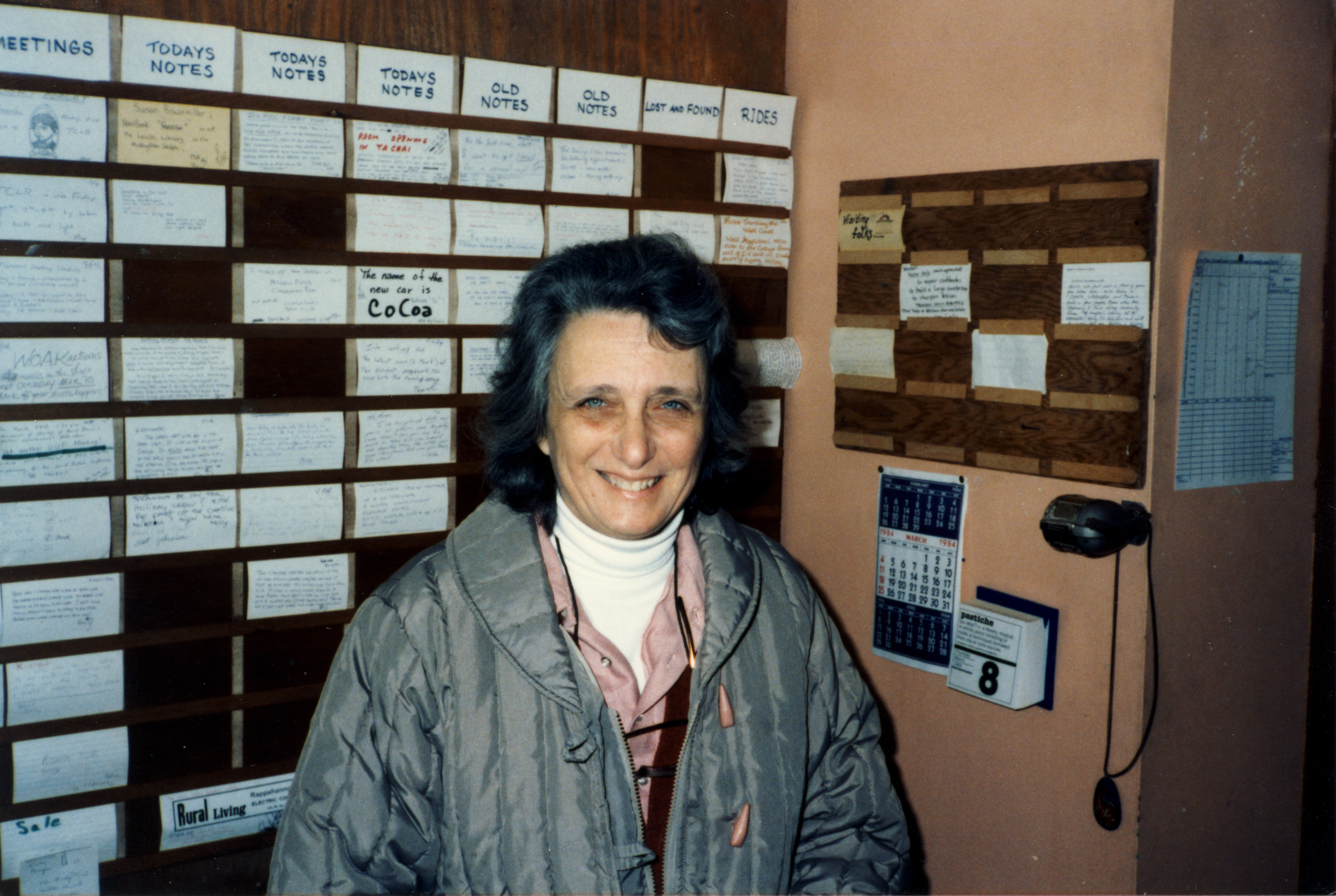 Kat Kinkade taken at Twin Oaks Community in Louisa, VA, in March of 1984.